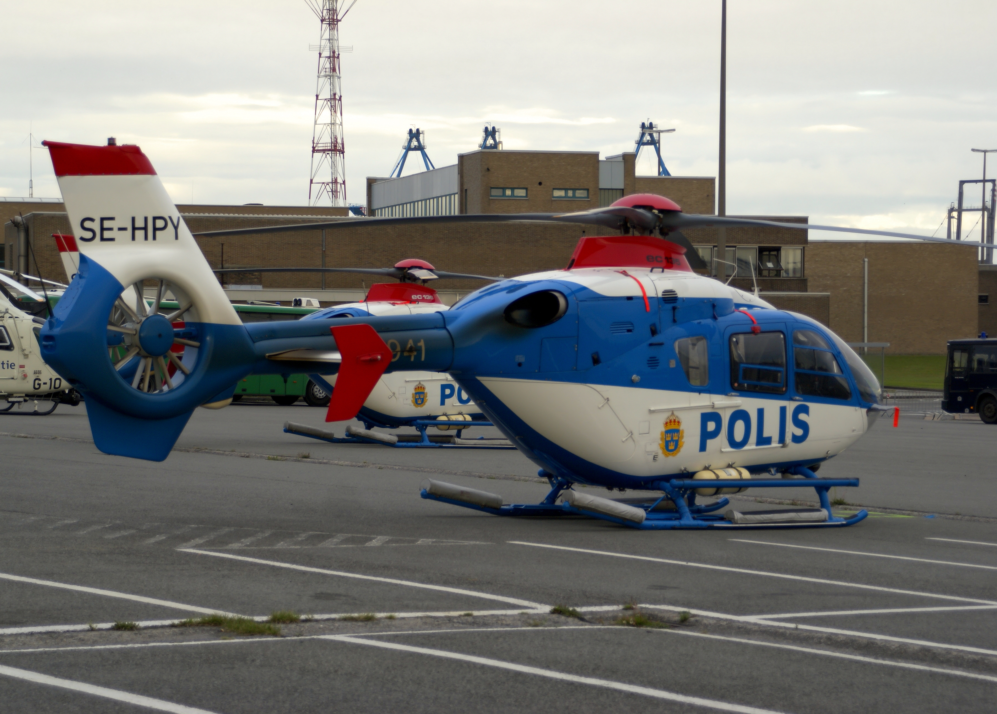 Swedish Police Eurocopter EC 135 helicopter on a practice mission.